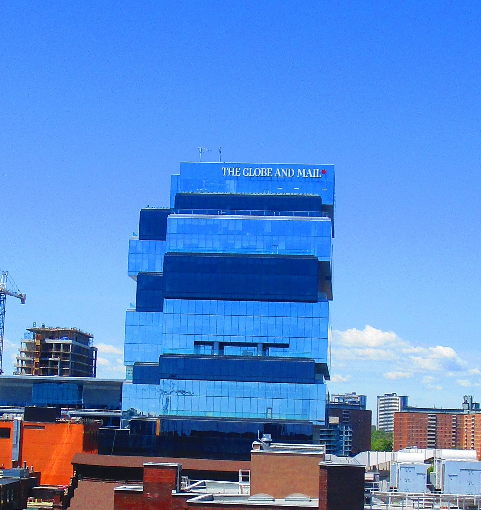 Recently_completed_Globe_and_Mail_Centre.